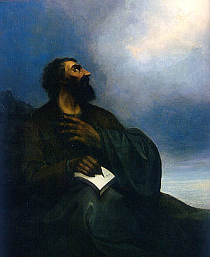 Mesrob Mashtots. Dream, when angel shows him armenian alphabet